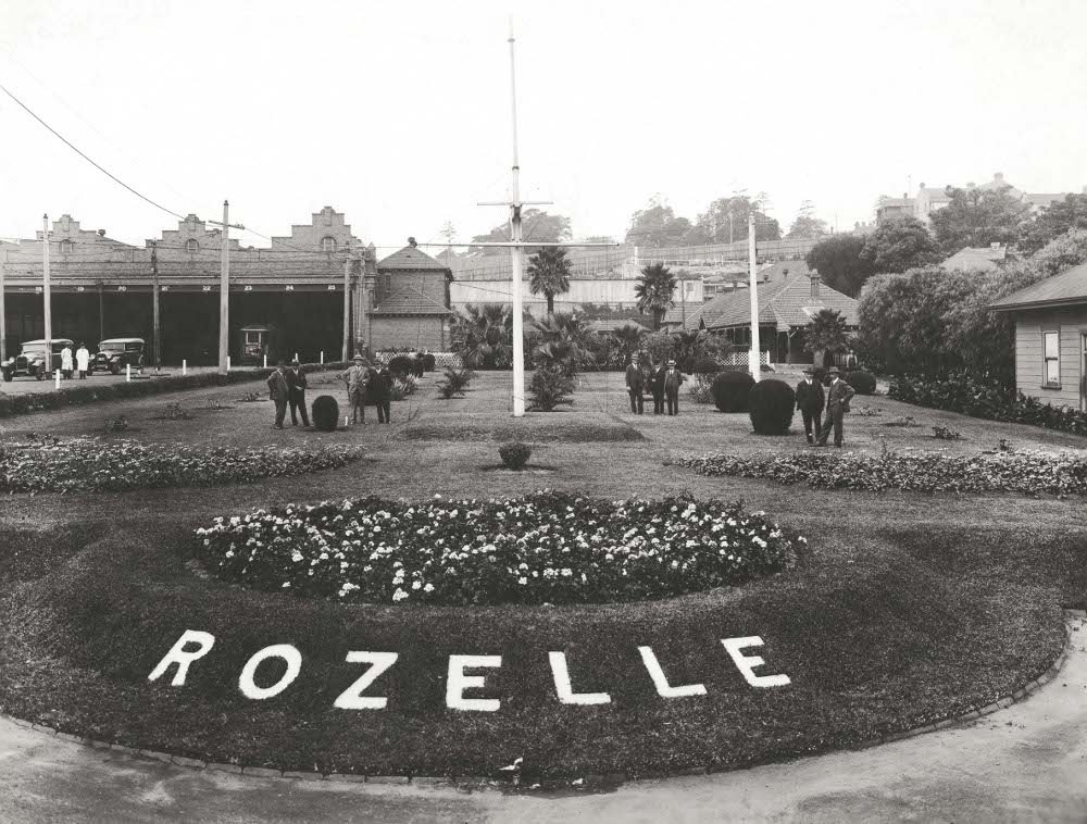 Rozelle Tram Depot Dated: possibly March 1929 Digital ID: 17420_a014_a0140001131 Rights: We'd love to hear from you if you use our photos/documents. Many other photos in our collection are available to view and browse on our website using Photo Investigator.